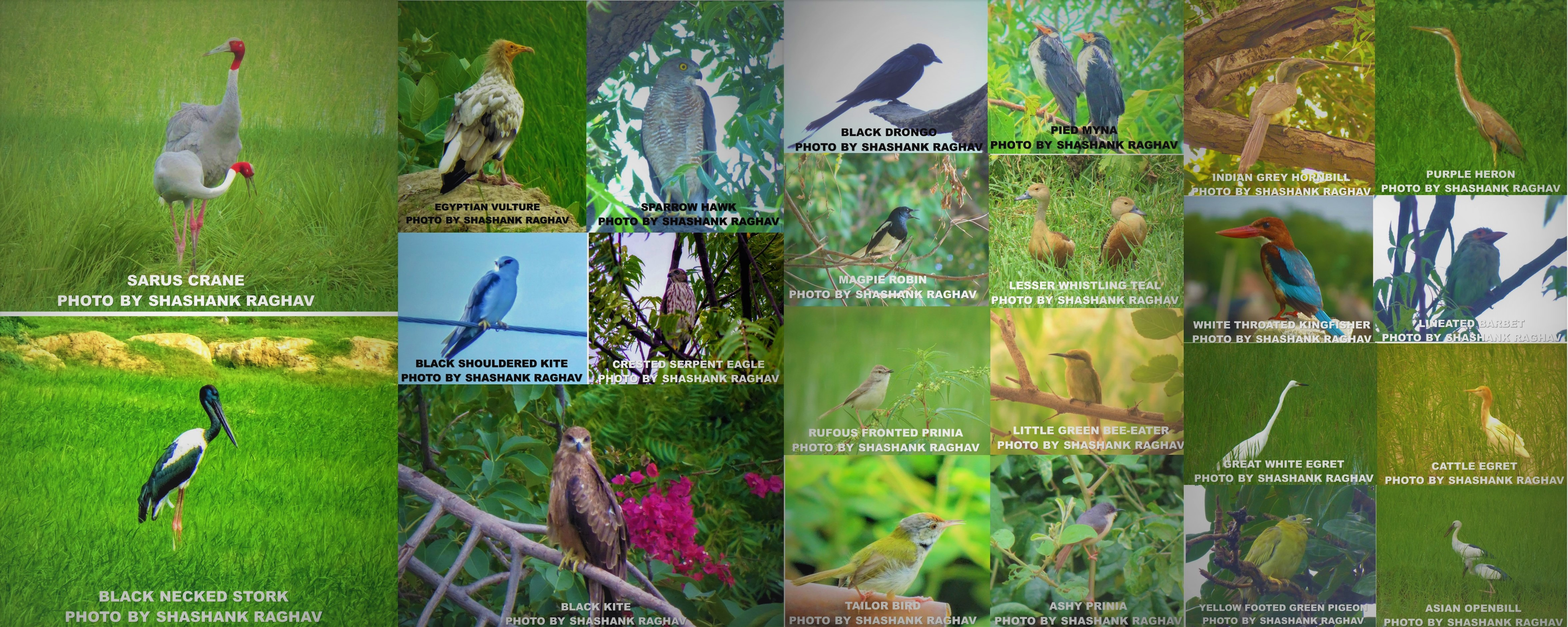 Birds caught on camera in Mainpuri district by Shashank Raghav